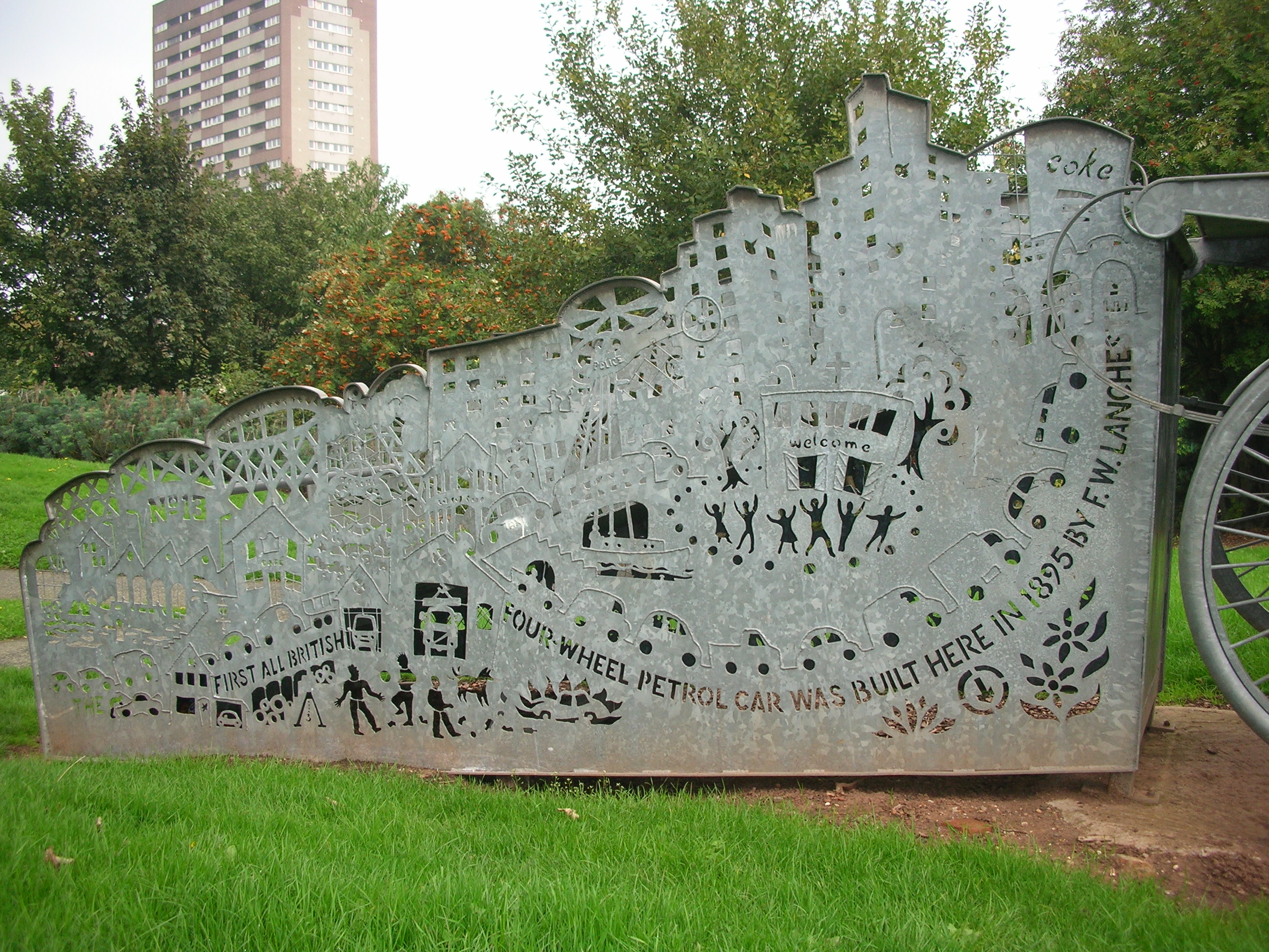 Detail of right hand side of the Lanchester Car Monument, an open-air sculpture of the Stanhope Phaeton, or Lanchester motor car. It is in Bloomsbury Village Green, a piece of reclaimed land in the Heartlands (Nechells) area of Birmingham, England. It was designed by Tim Tolkien to commemorate the Lanchester cars which were made in the city. Photographed by me 16 October 2006. Oosoom 13:41, 16 October 2006 (UTC)